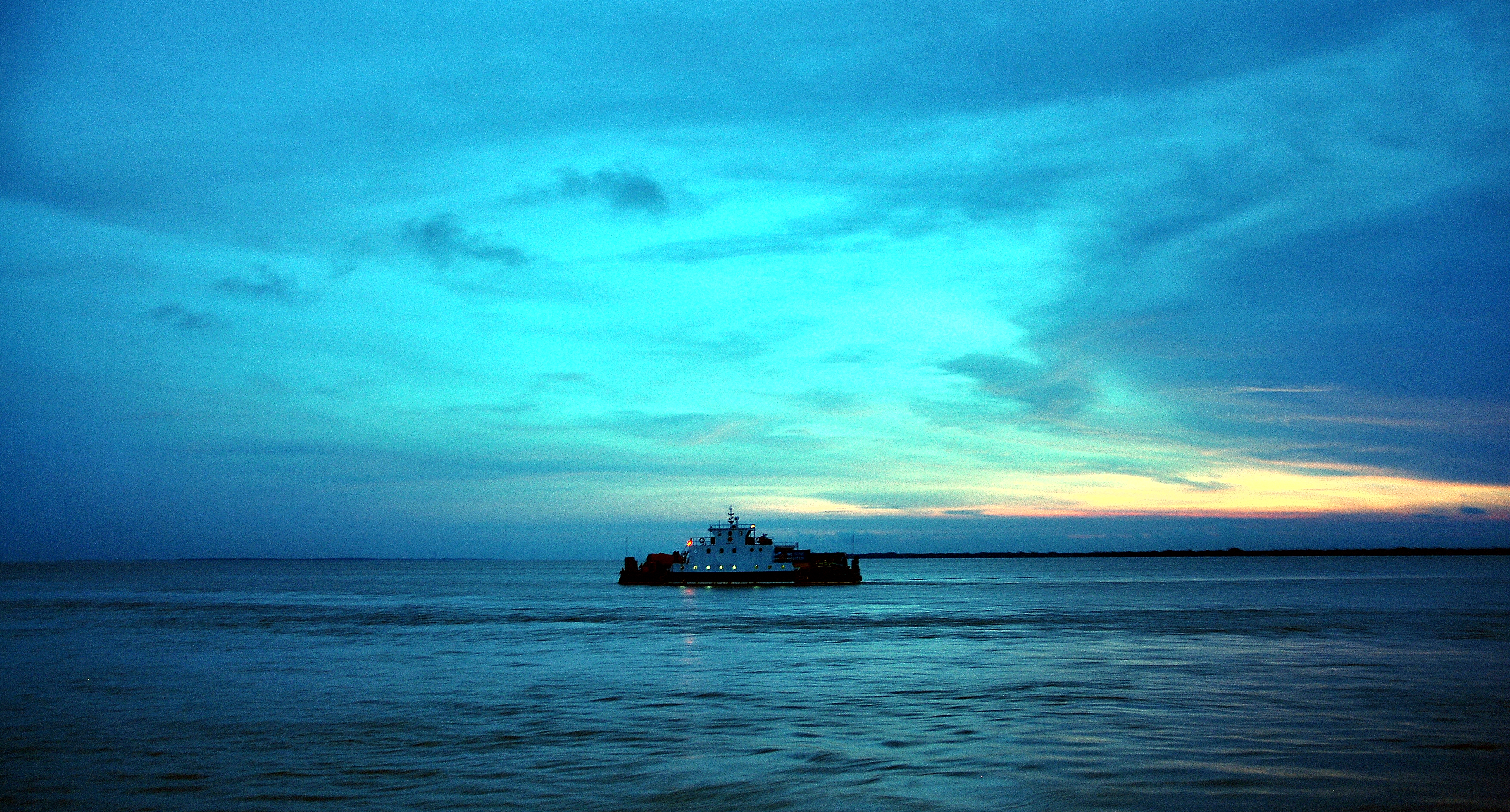 First day light at Paturi Ferry Ghat Manikganj